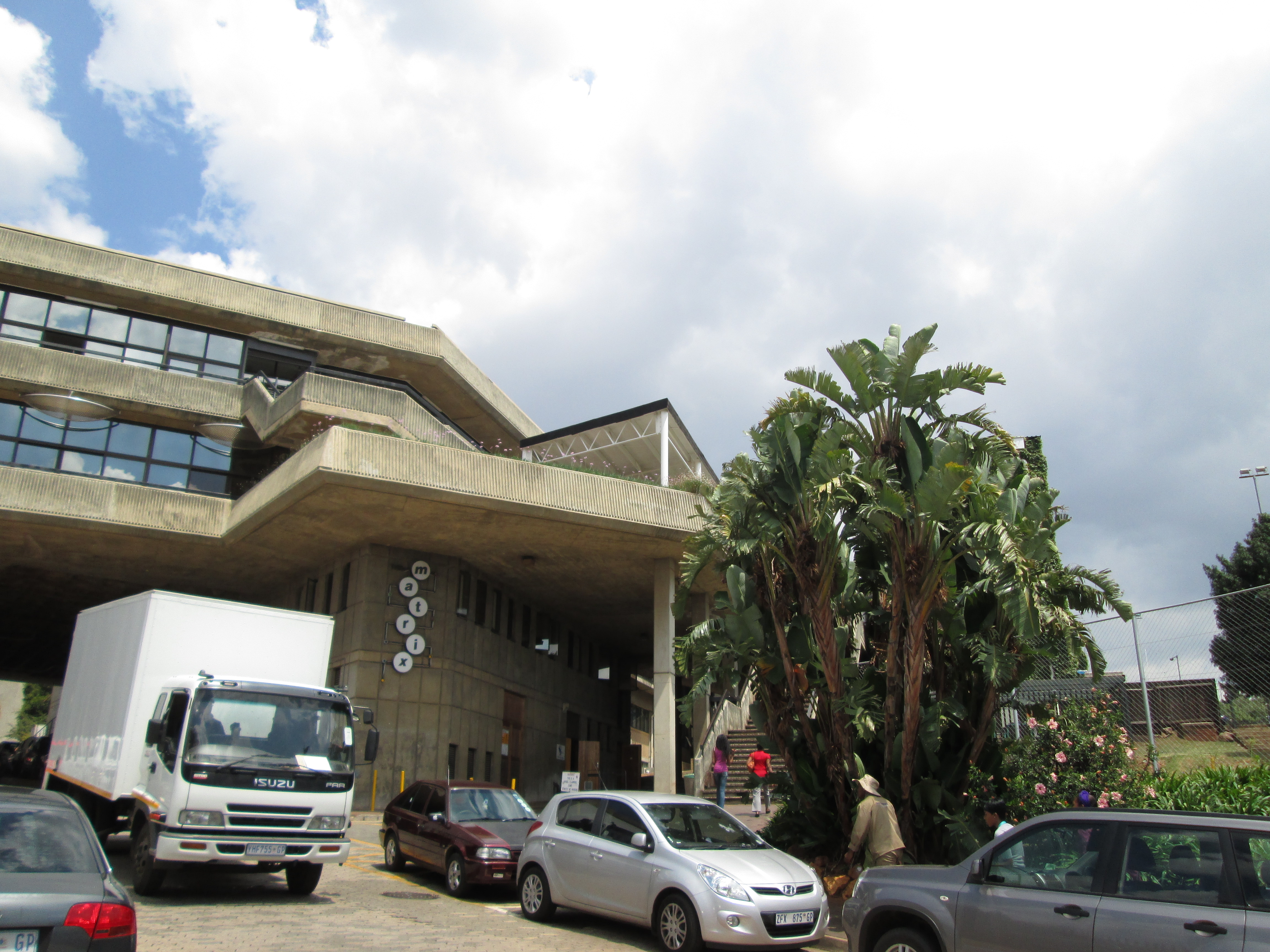 The Student Union Building (commonly known as "the Matrix" after the student mall hosted on its ground floor) on the east campus of the University of the Witwatersrand, Johannesburg.